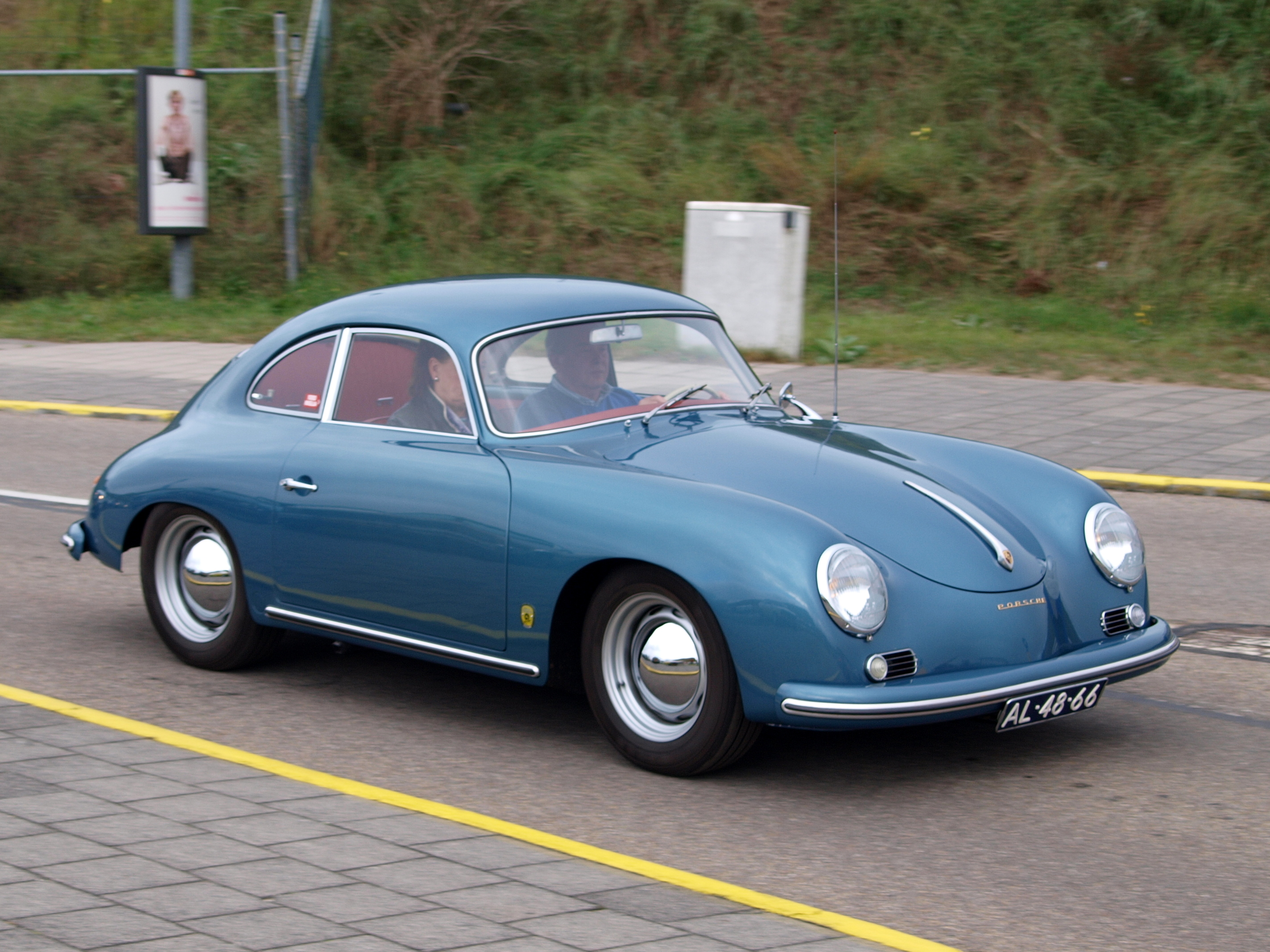 Photographed at the Nationaal Oldtimer Festival Zandvoort 2010, The Netherlands.